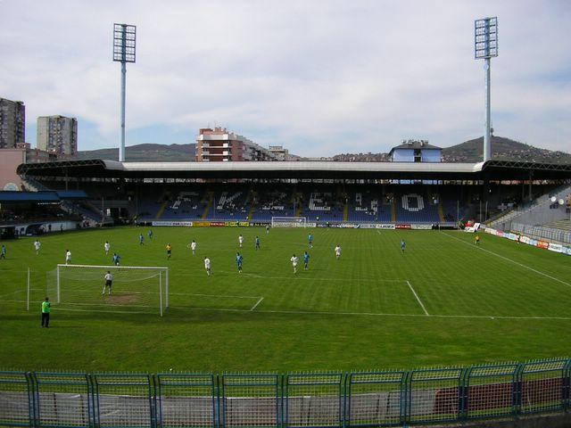 I took this photo during a BiH PL match in 2006